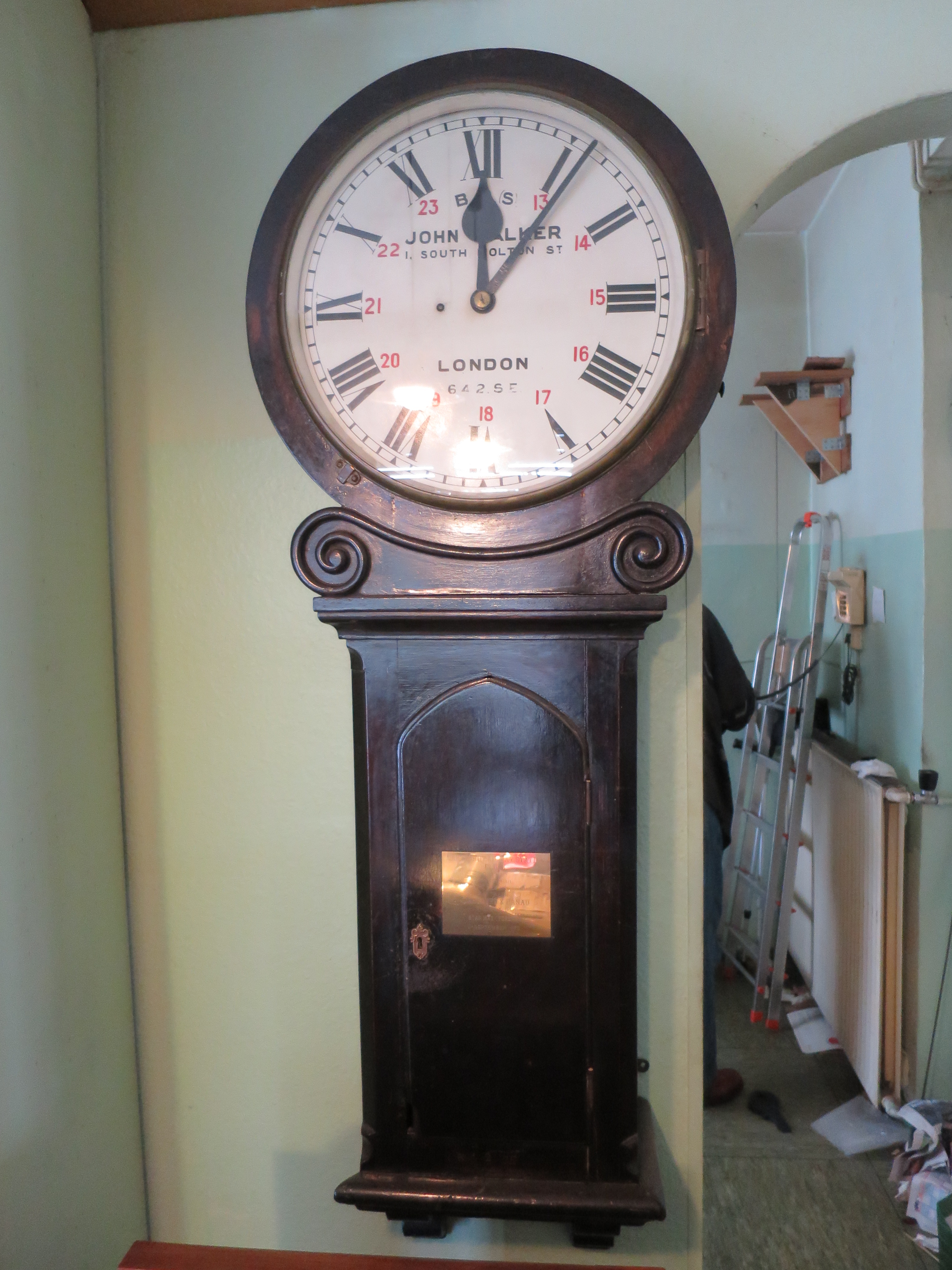 Former Station clock of Dartford, 1895